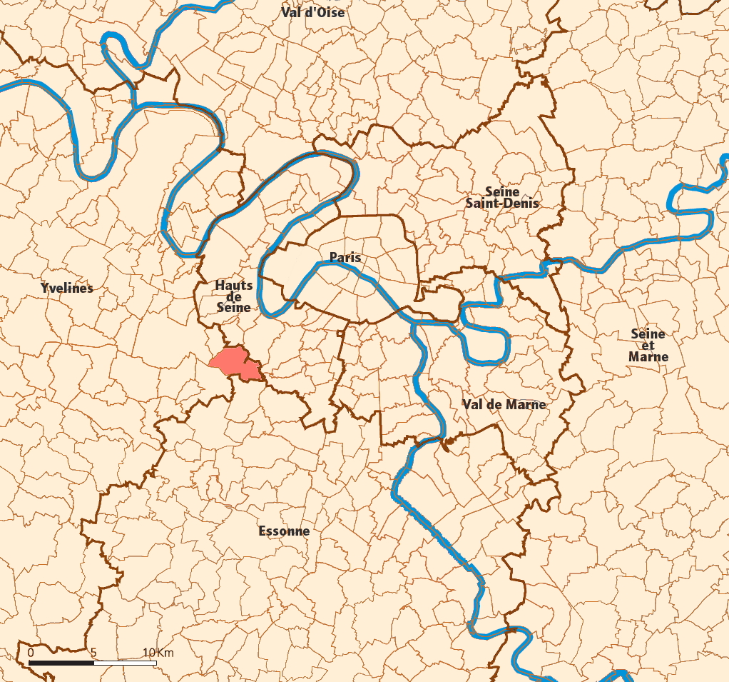 Created map myself.